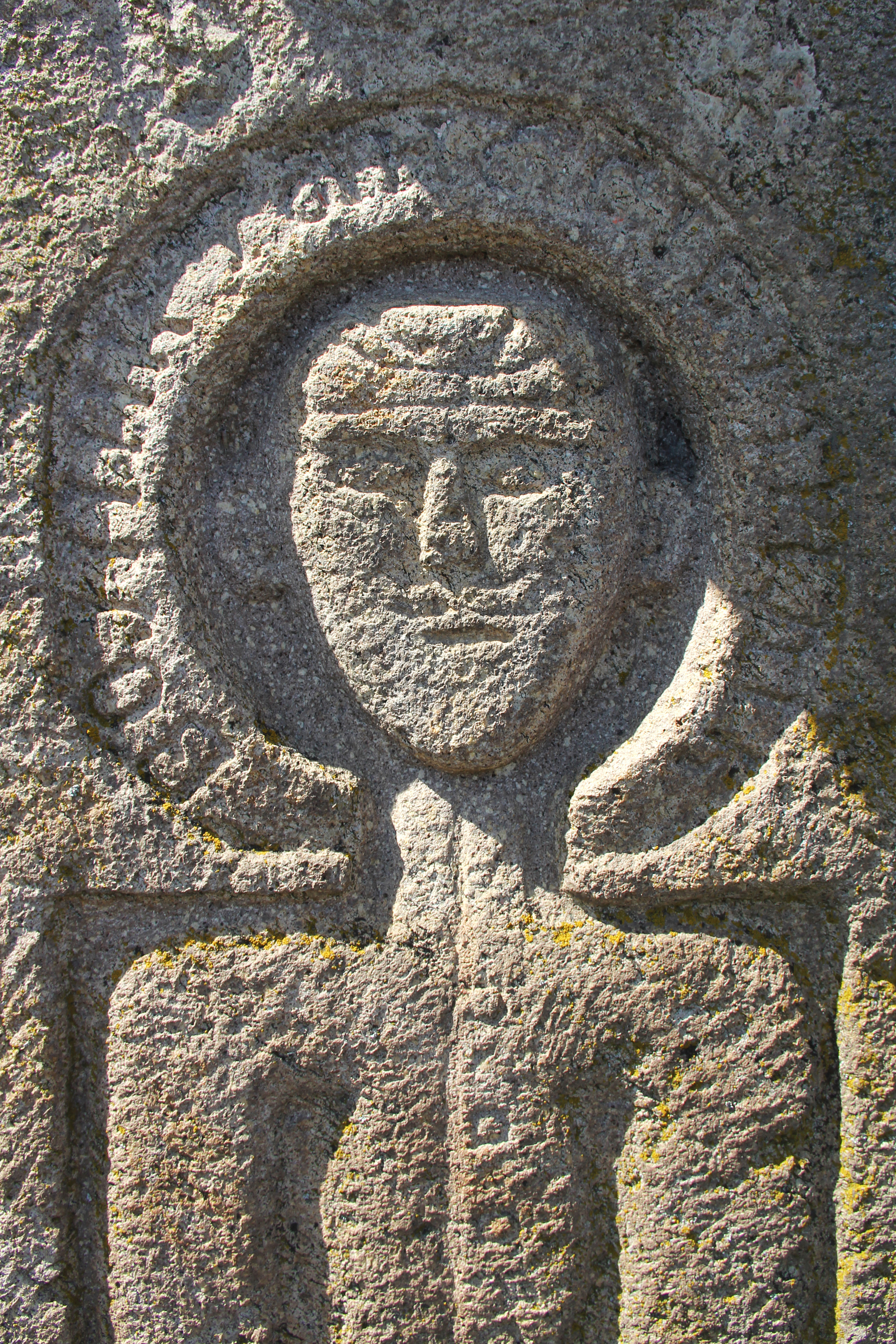 Roadside tombstone erected in memory of Tanasije Milic. It is located in the village of Semedraz (the municipality of Gornji Milanovac), Serbia.